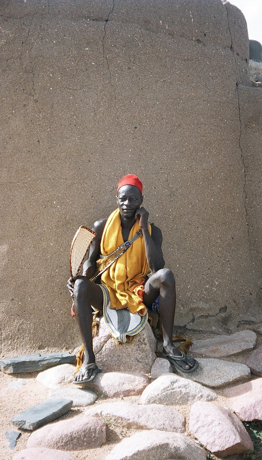 The Shrine guard